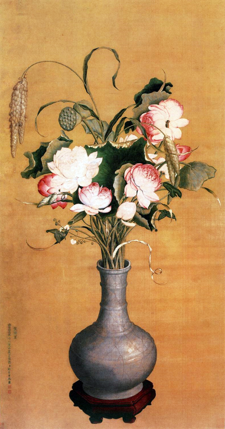 Beauties Collection, by Giuseppe Castiglione. Located in the Shanghai Museum.